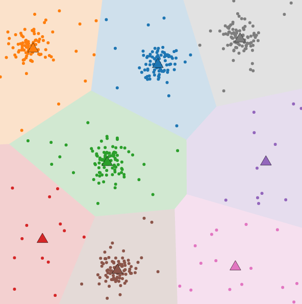 Kmeans toomany